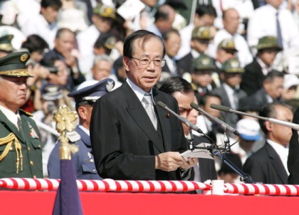 Yasuo Fukuda, Prime Minister, addressed the Parade of Self-Defense Force at the Camp Asaka, Ground Self-Defense Force in Nerima Ward, Tōkyō Metropolis on October 28, 2007.